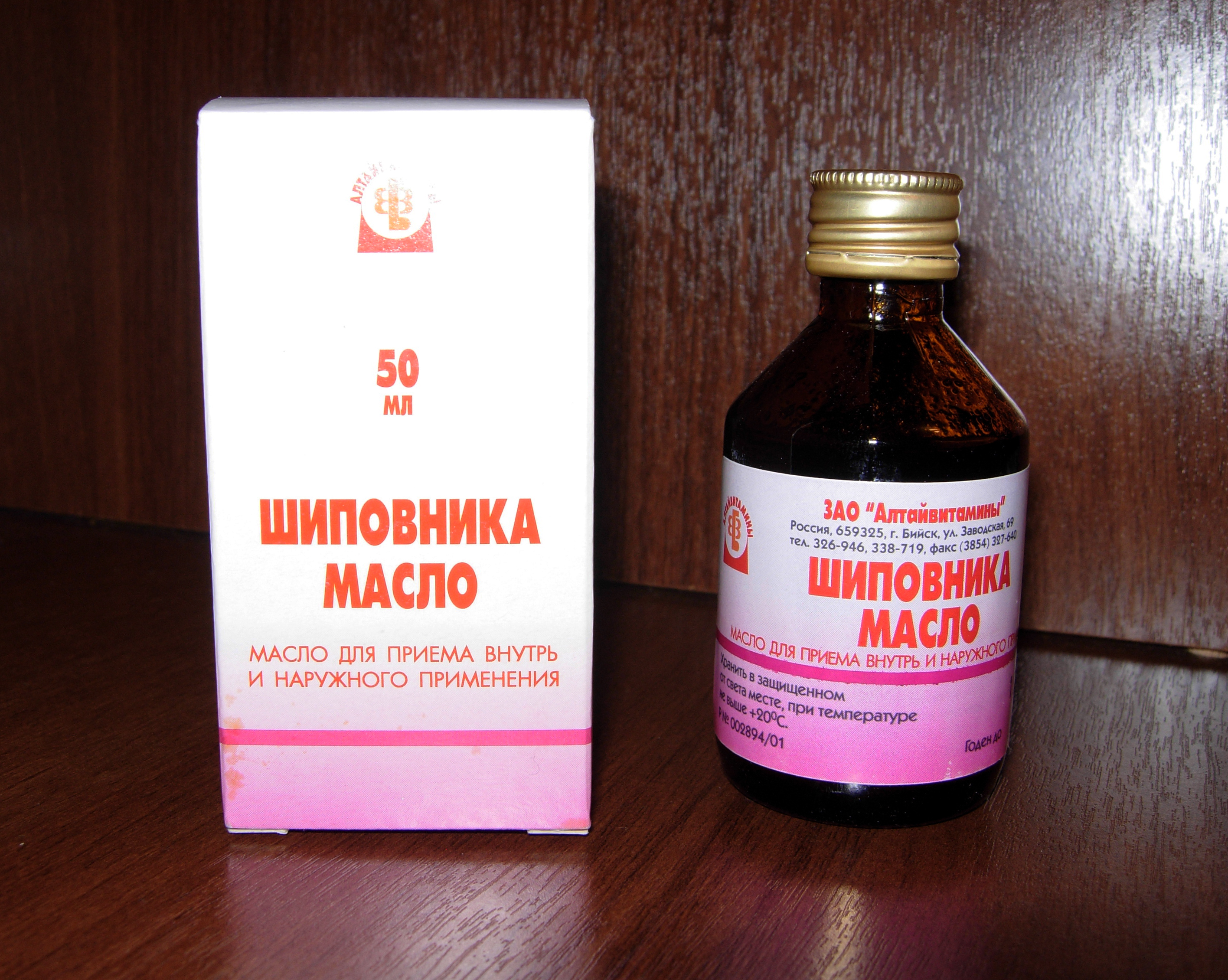 Oleum Rosae